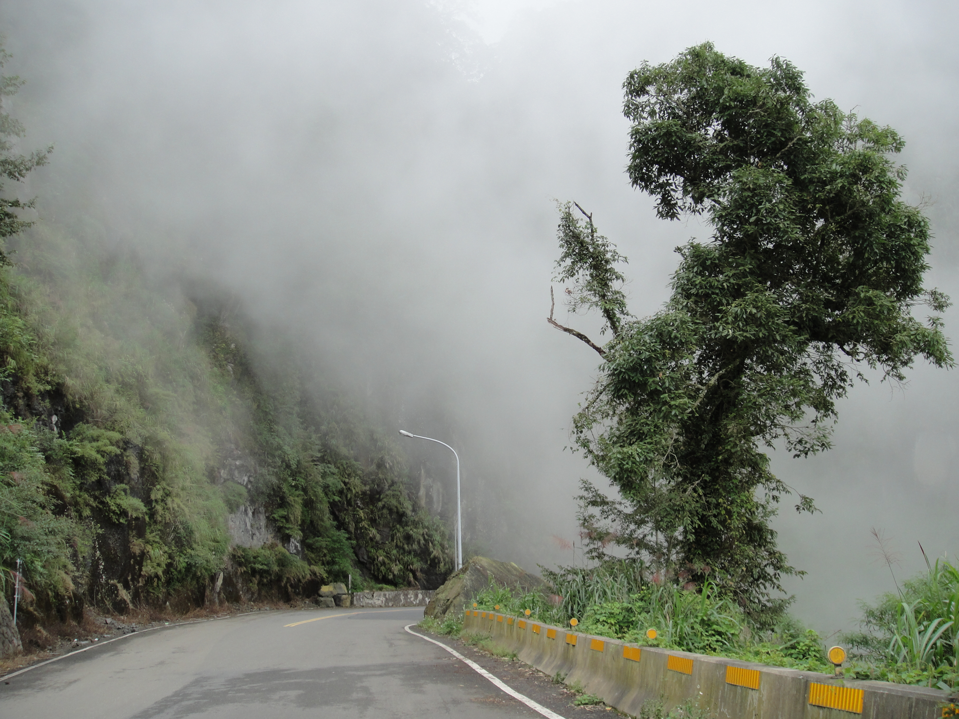 View of the scenery on the way up to Sun Link Sea on the road.